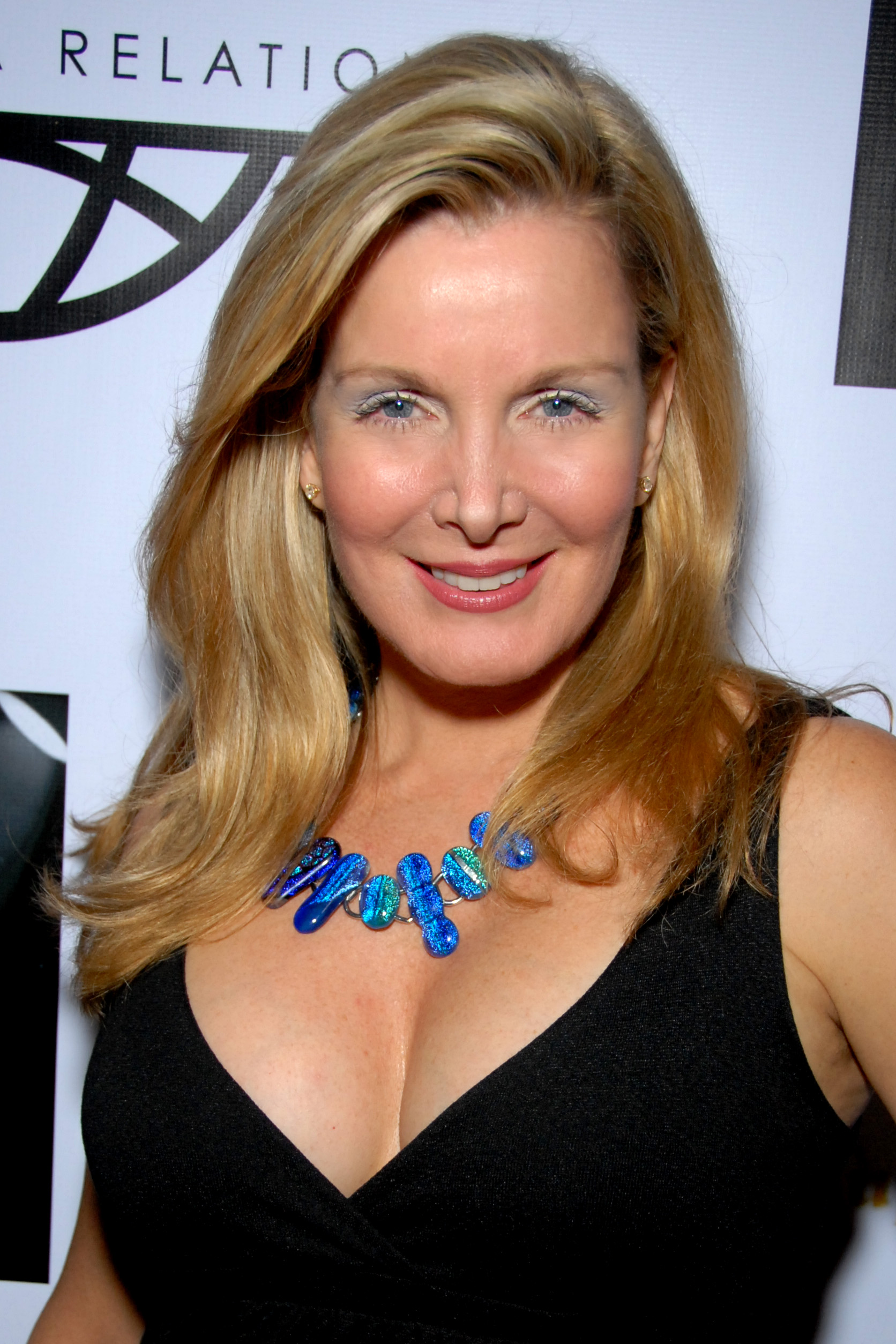 Megan Blake attending a book signing event for the book "Another Man’s War" by Sam Childers, Beverly Hills, CA on May 5, 2009 - Photo by Glenn Francis of